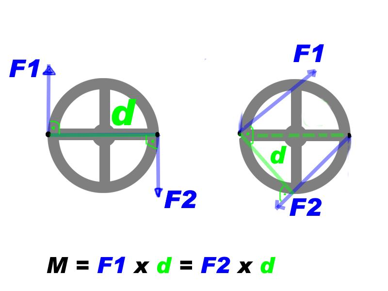 Moment of a pair of forces (physics)